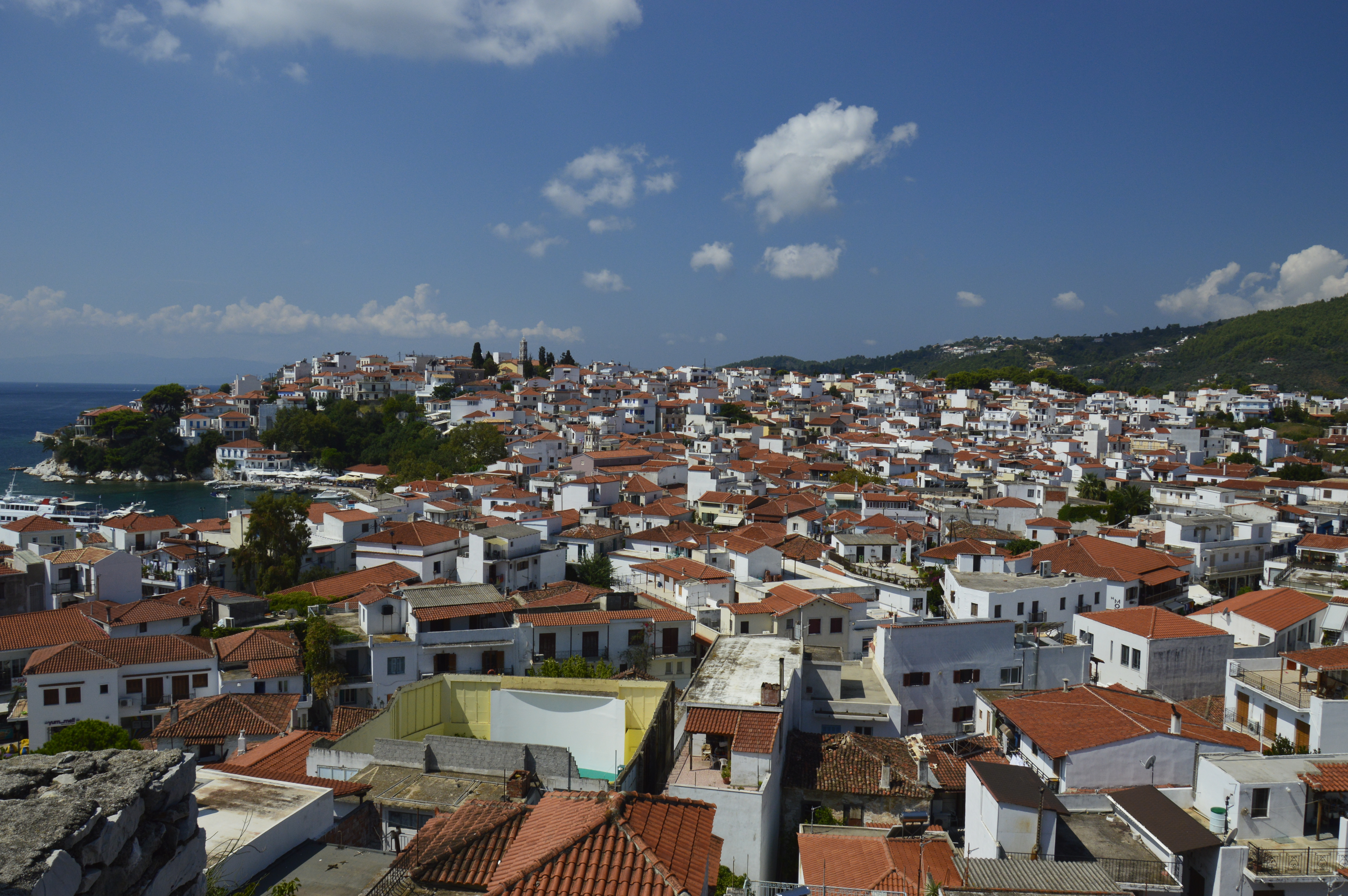 Skiathos 12